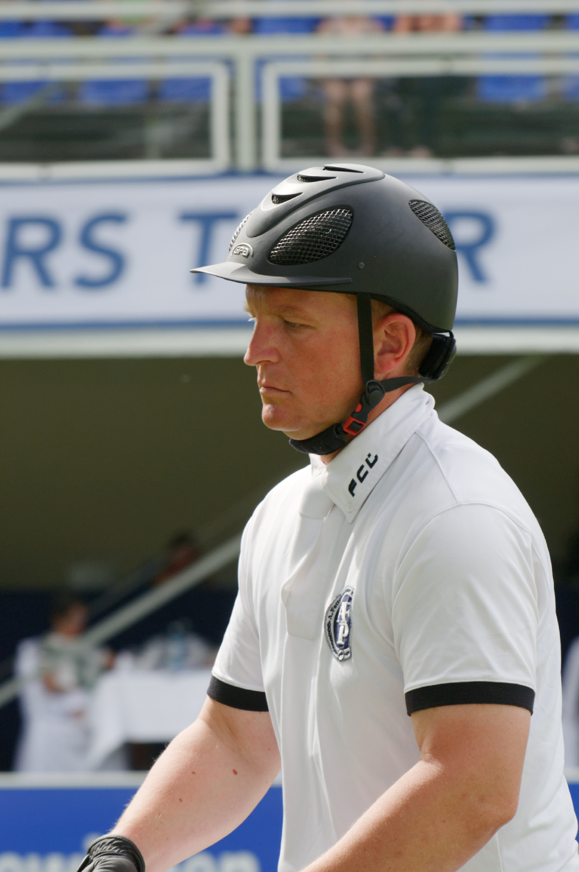 Internationales Pfingstturnier Wiesbaden 2014 The making of this document was supported by the Community-Budget of Wikimedia Germany.